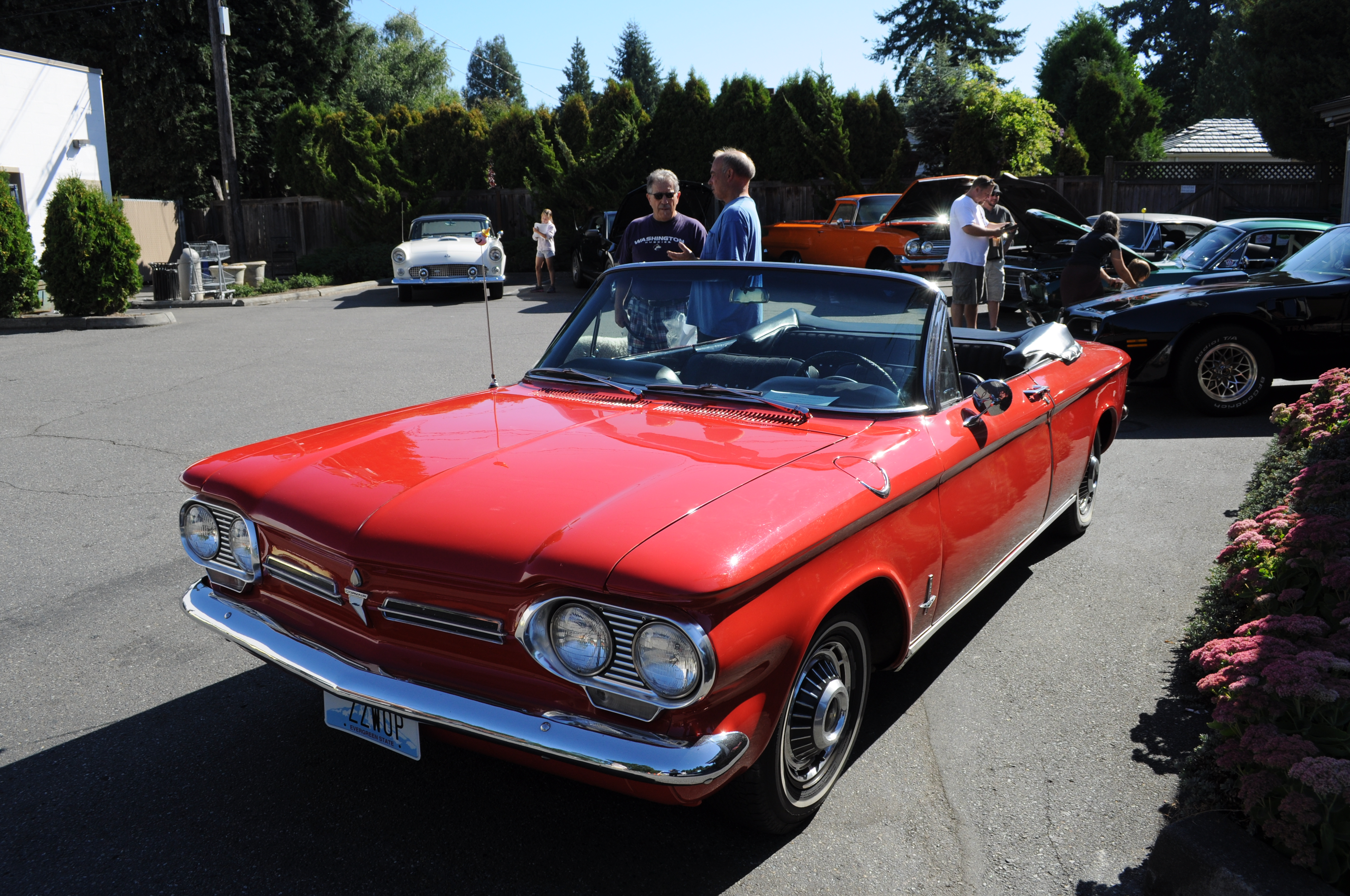 1962 Chevrolet Corvair Monza, 4th Annual Chad Shanks Memorial Car Show, Wedgwood Broiler, Wedgwood, Seattle, Washington, USA